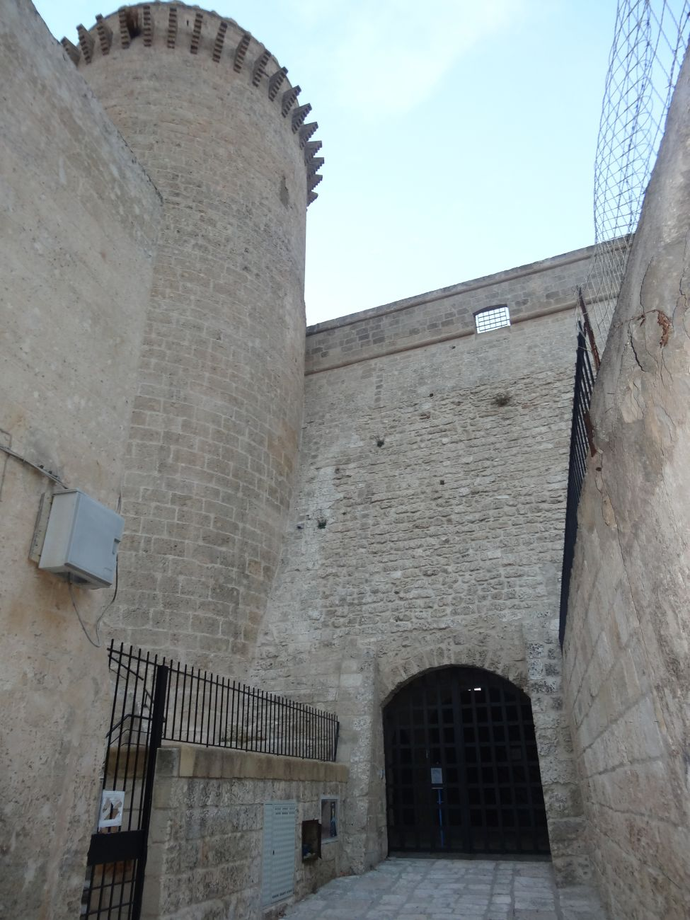 castello di Oria